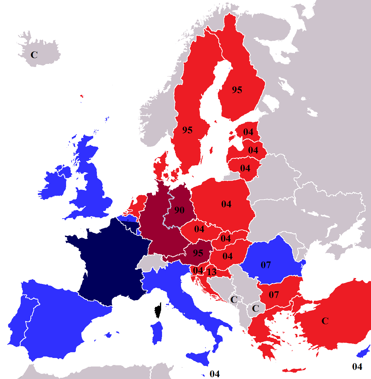 The EU-enlargements since 1995 have largely favoured the position of Geman relative to French. The only exceptions are Romania, Cyprus and Malta. Red: Countries where German is more known than French. Blue: Countries where French is more known than German. Darker colours: Native countries. Figure: year of accession. C: Candidate country.